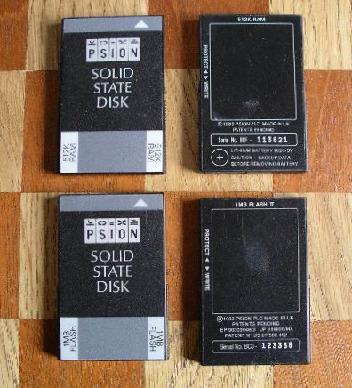 Photo taken on 10 November 2006 of Psion 3 memory modules. Background shows 5 cm squares. Low resolution picture for illustration. Fair use intended.